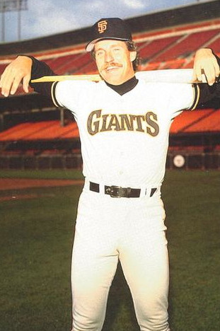 Professional baseball player Champ Summers